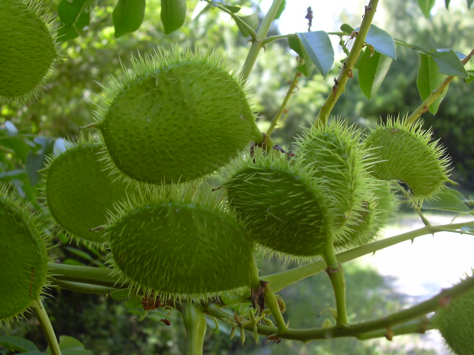 Caesalpinia bonduc (fruits). Location: Florida, Lido Beach